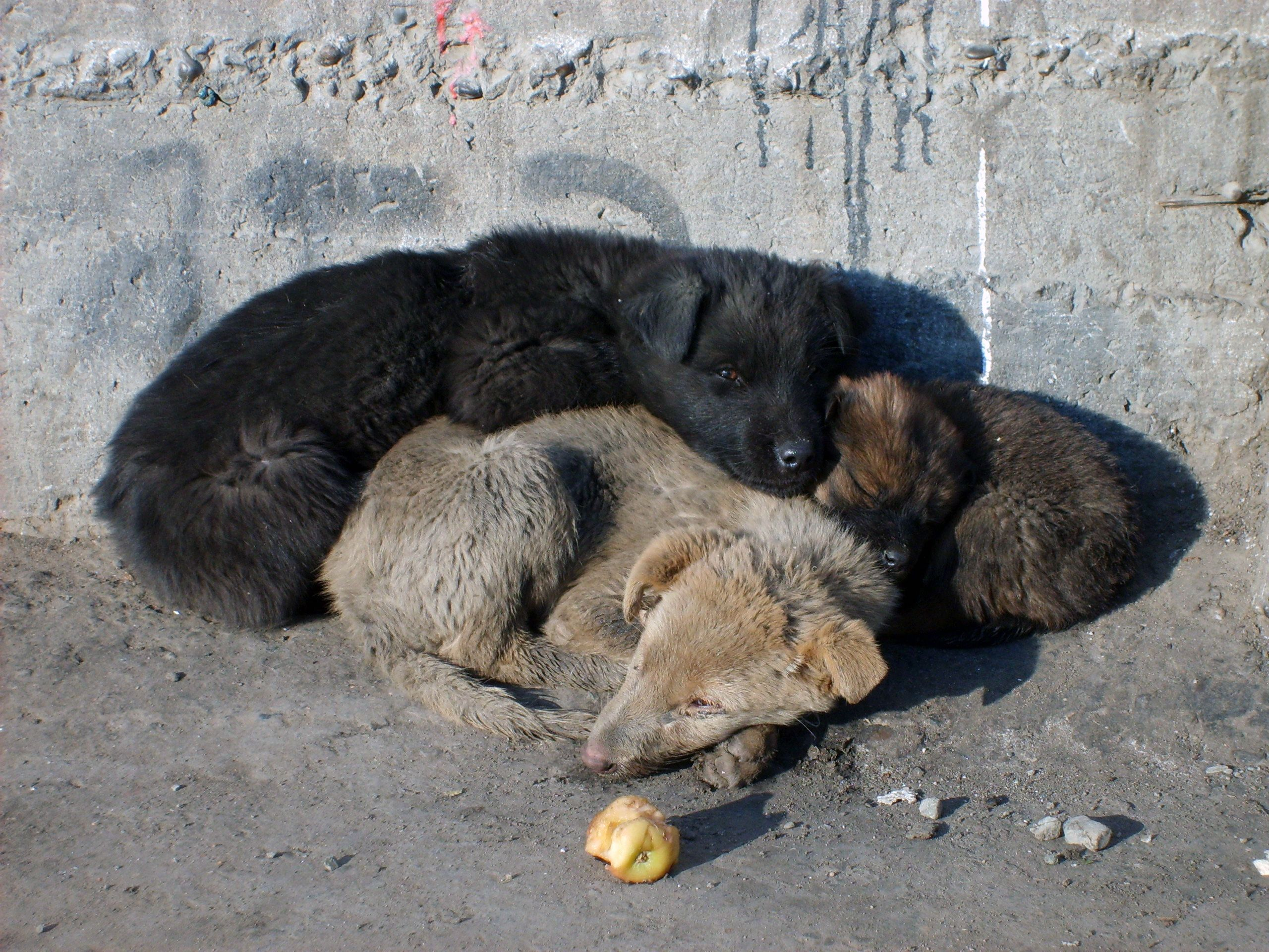 Three puppies sleeping together in hard mongolian winter in Ulaanbaatar (the Capital of Mongolia). Life of stray dogs in Ulaanbaatar is very cruel. Especially during the winter. Severe frosts, which reach as – 40 ° C, only the strongest dogs survive. Their suffering does not end with the end of the winter. Several hundred of stray dogs are shot by the arrival of spring. Because stray dogs are incompatible with a pleasant place for tourists.